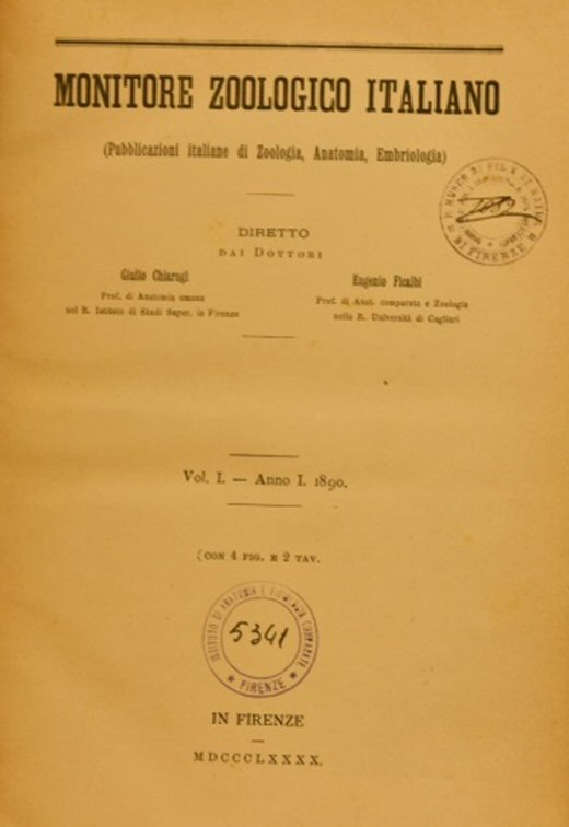 Frontispiece of a number of "Monitore Zoologico Italiano"